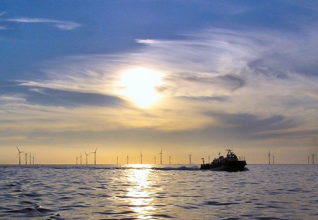 Return to base The days work done, one of the maintenance vessels returns to Barrow in Furness from the Walney wind farm. At the time of the photograph there were three other craft out there, two of which can be seen in the far distance. There are thirty turbines in total making up the wind farm with a combined output of 90 megawatts when all are on stream. Note: This photo shows the Barrow Offshore Wind Farm, rather than the Walney Wind Farm (for which construction began in 2010).